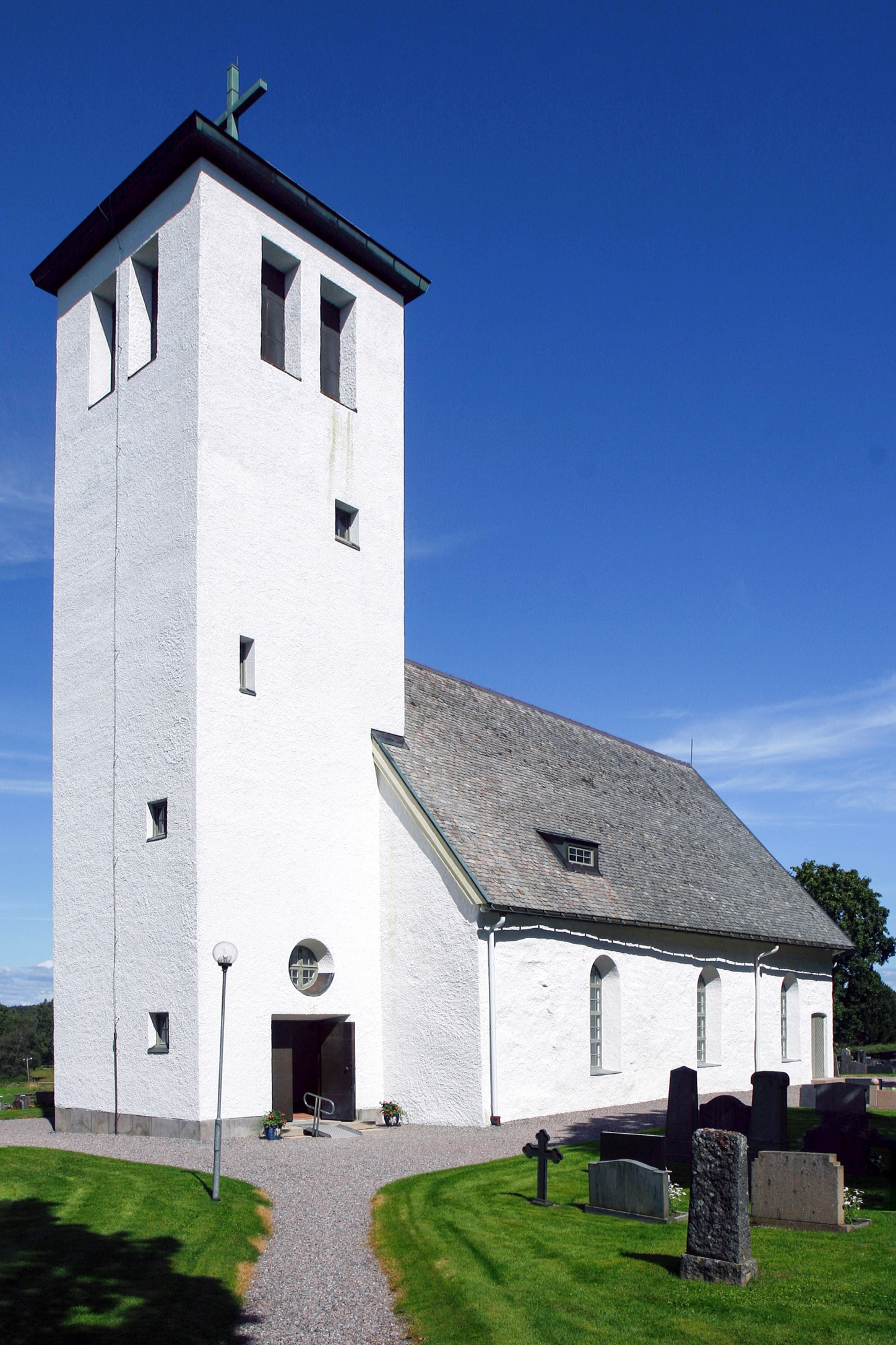 Image of Rölanda church, Dalsland, Sweden